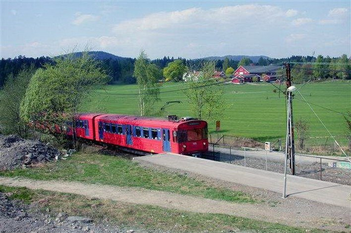 T1310 train appraching Gjønnes Station of the Oslo Metro